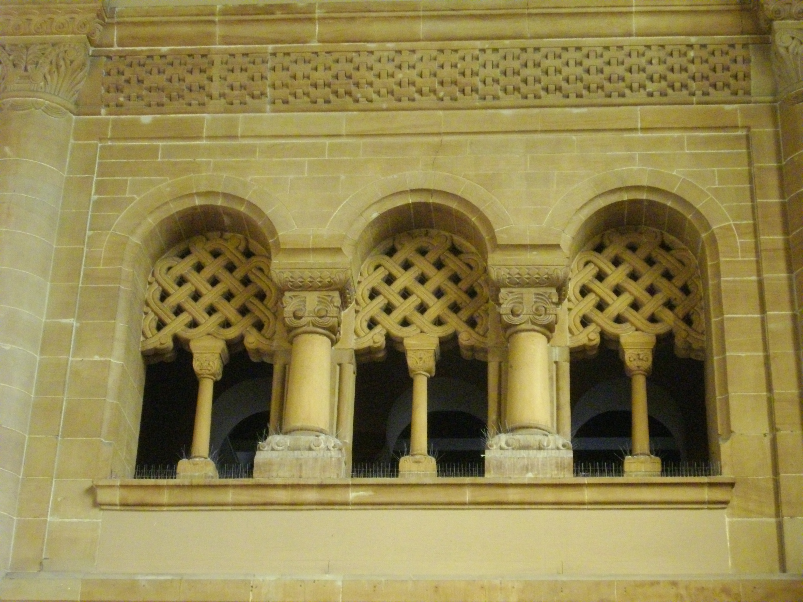 Metz-Ville train station (Moselle, France) ; windows in the departure hall .